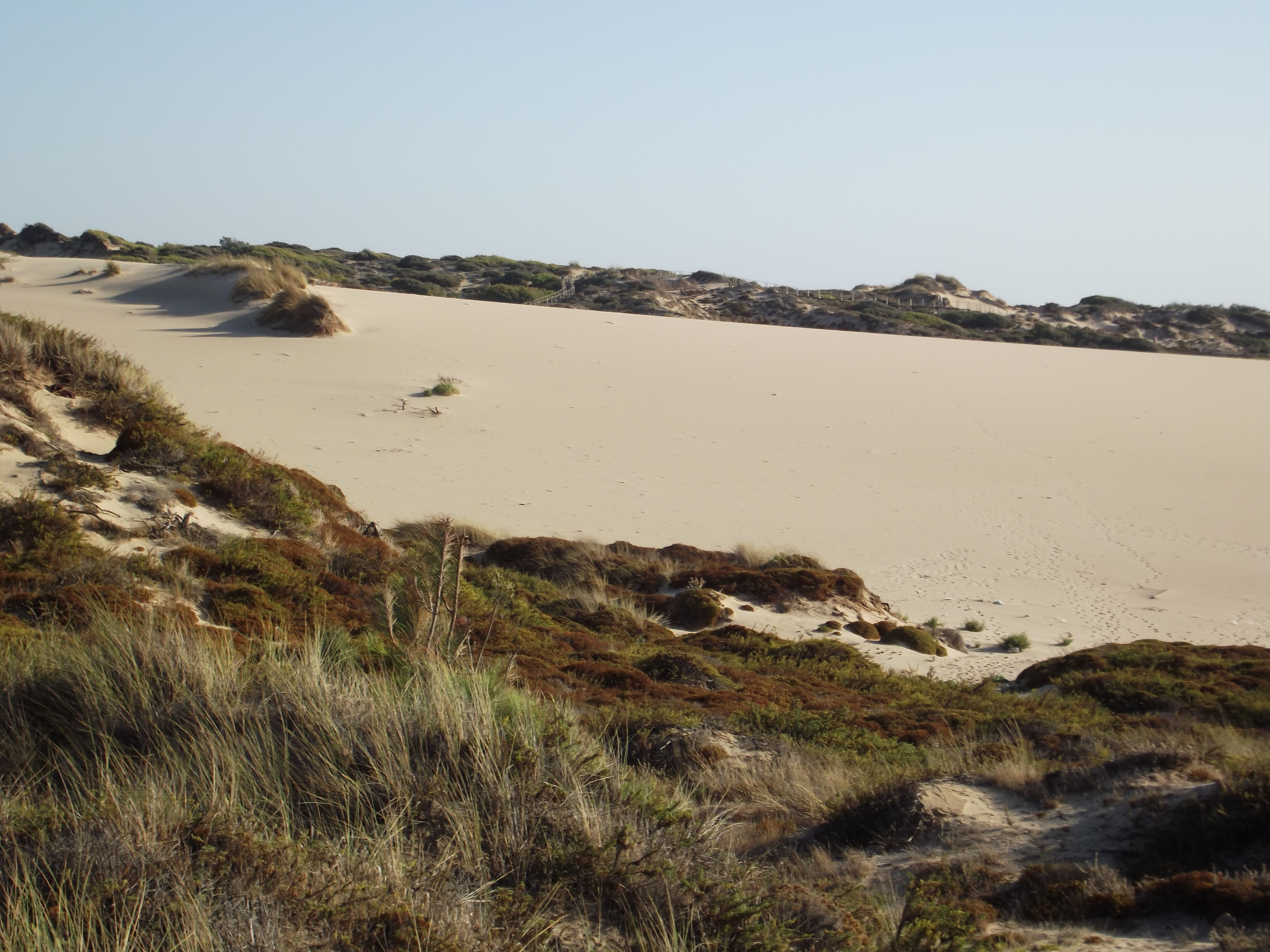 View of Cresmina Dunes near Cascais in Portugal